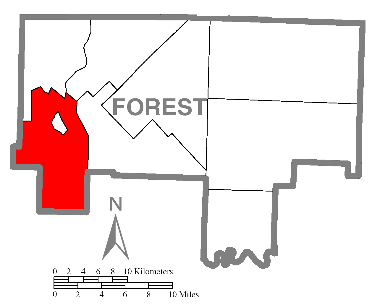 A map of Forest County showing Tionesta Township, Pennsylvania (alternate) highlighted on the map.